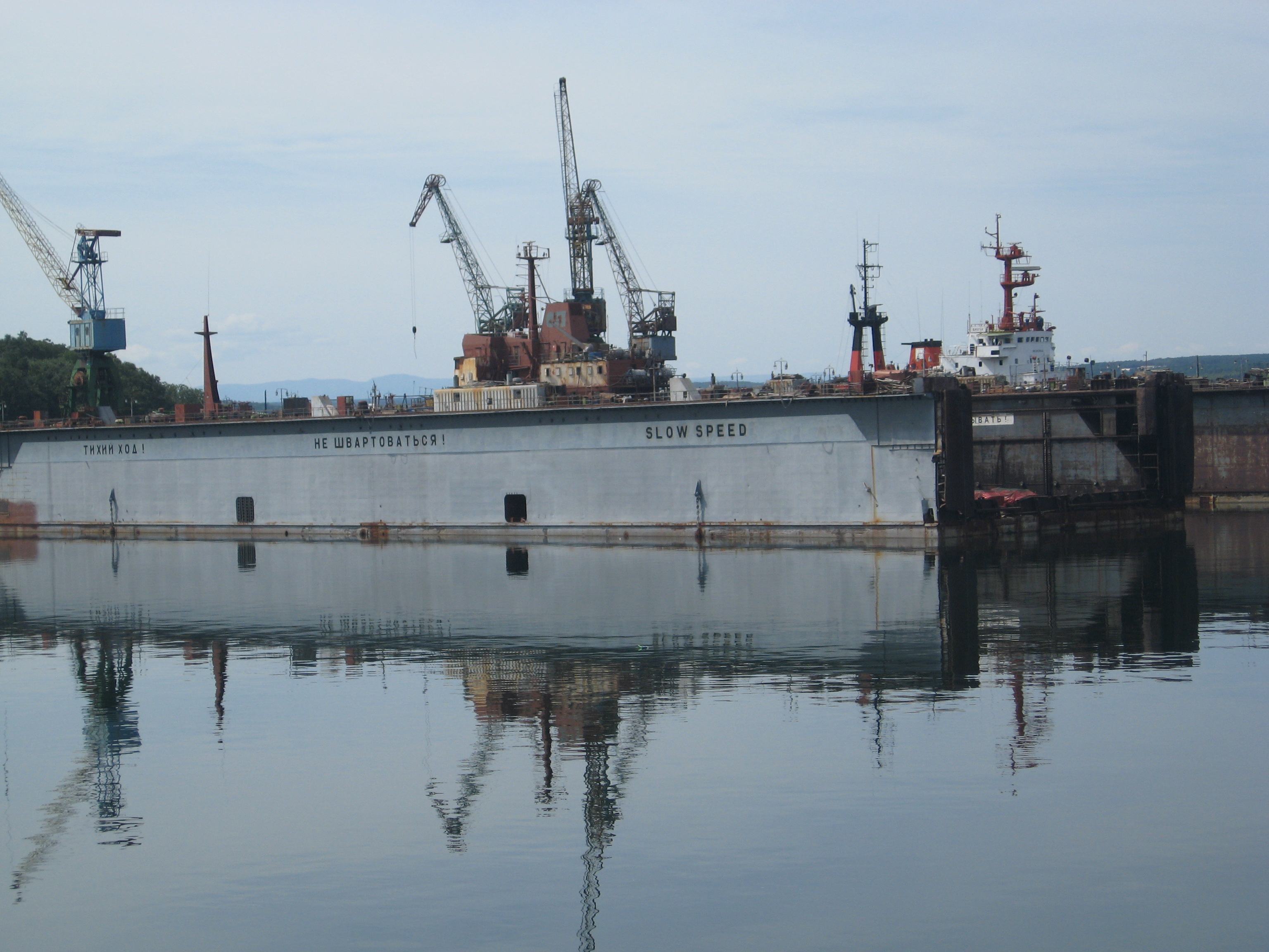 The Sity of Sovetskaya Gavan. Dock in North Ship-Repair Factory